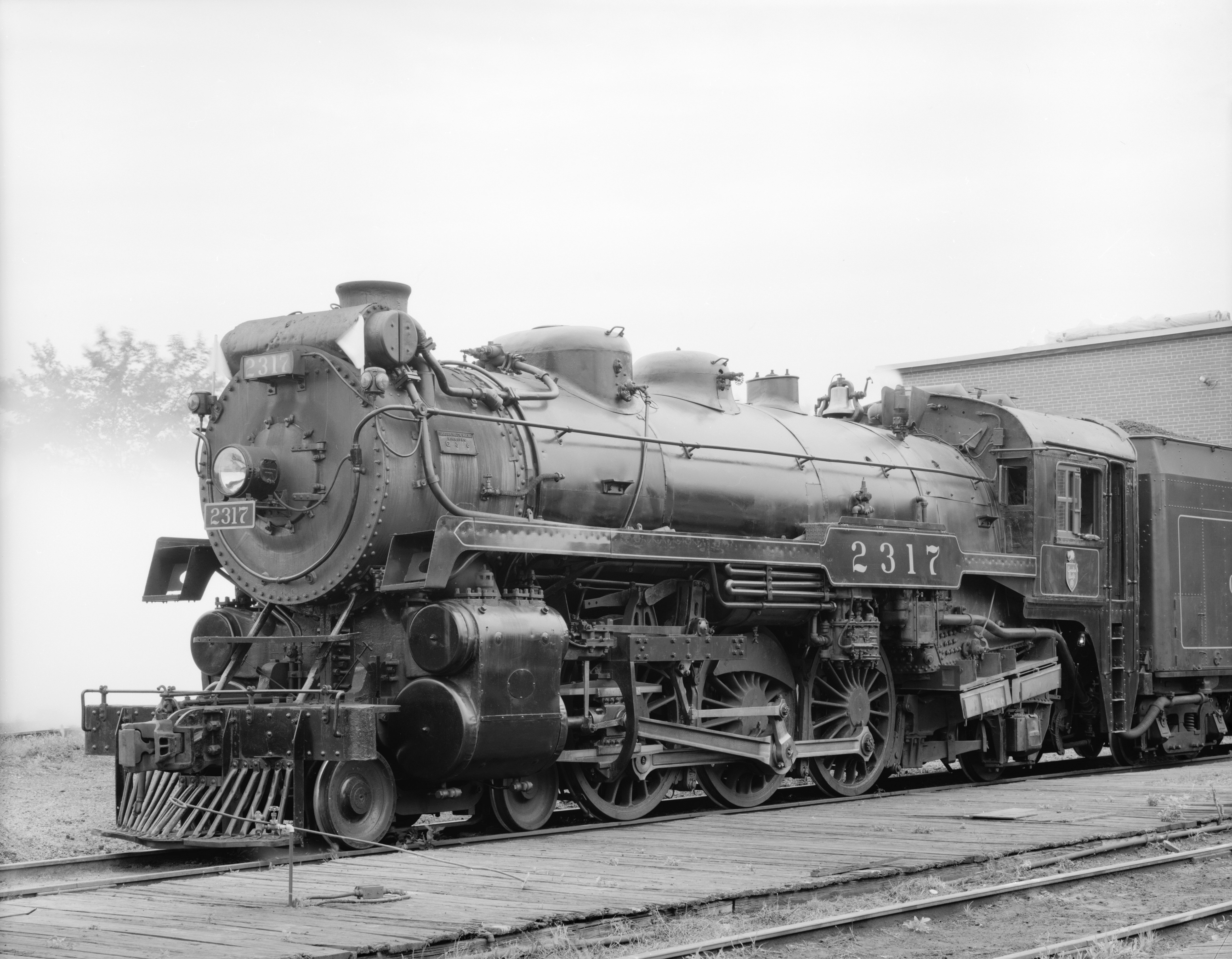 Canadian Pacific Railway G3c class 4-6-2 locomotive #2317. Photo part of the Historical American Engineering Record done by the US Parks Service, public domain.